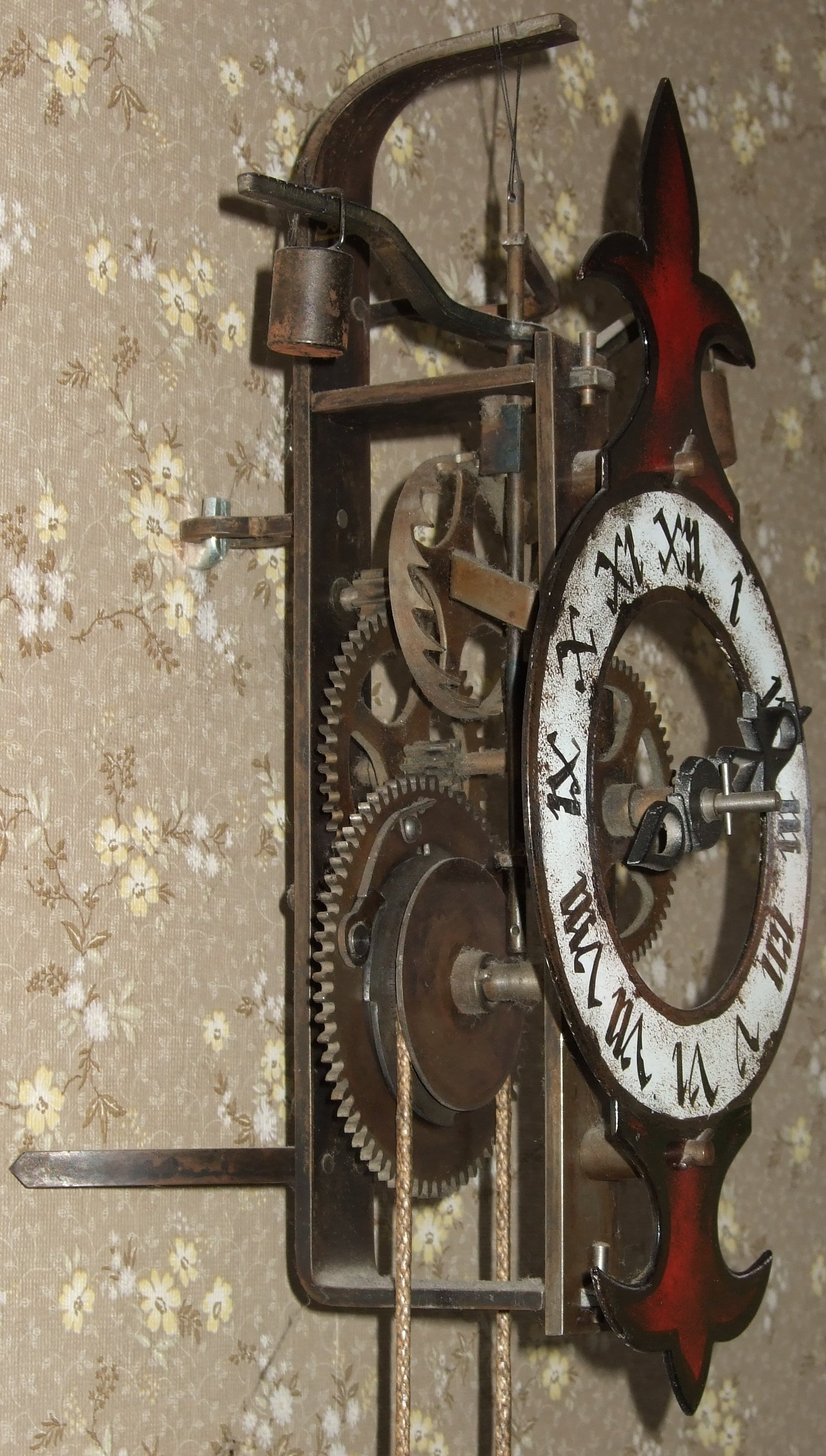 Modern reproduction of an ancient verge and foliot clock.